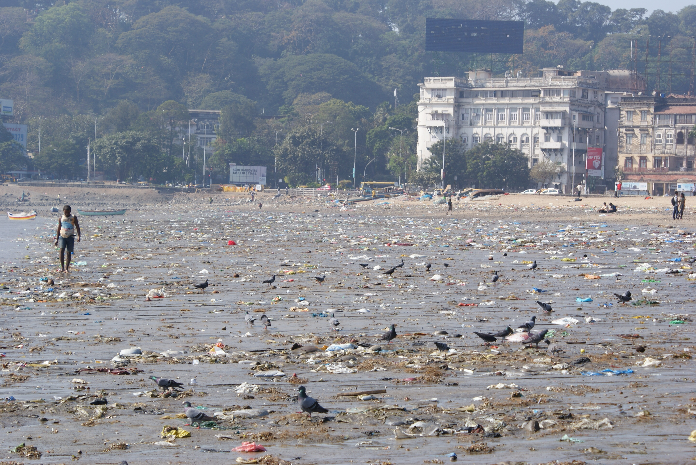 A Beach in Bombay as a result of water pollution.